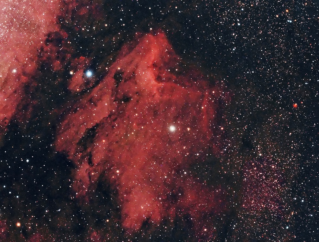 Pelican Nebula, NGC 7000